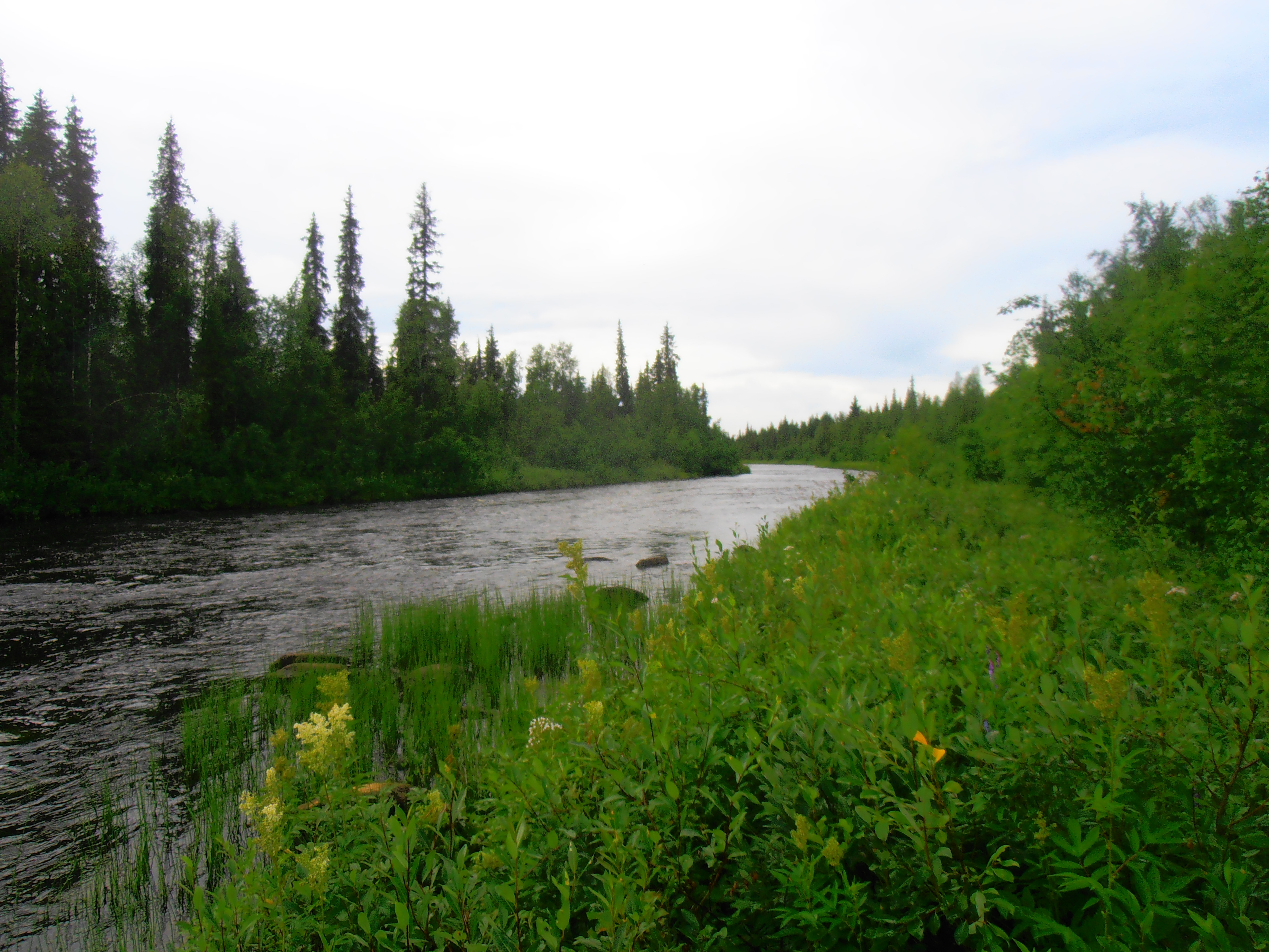 Vettasjoki (Ängesån), Nilivaara